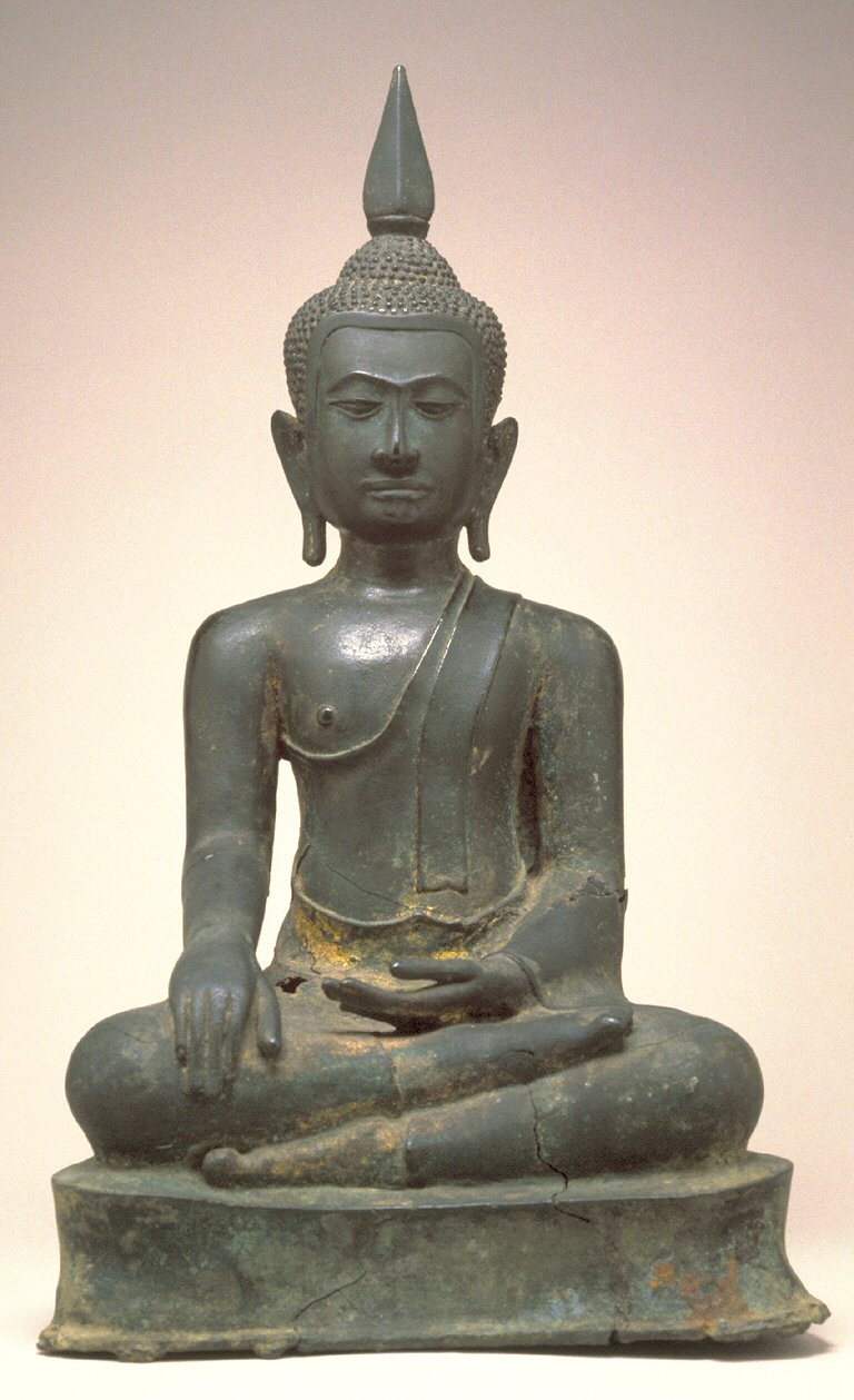 This image stands somewhat apart from the images that appear to have been made in Ayutthaya itself in about the 1st quarter of the 15th century. It has a radiance in the form of a spike or elongated gem, rather than a flame; it is deep; and the pedestal is less contracted and does not have a vertically edged element at the bottom. It must, therefore, be the product of a different region, possibly Suphanburi or Sanburi. In the new Sukhothai and related styles, there is an ideal facial shape. The U Thong-style sculptor tends to proceed somewhat differently, working outward from the facial features, focusing on the expressive mouth and eyebrows, with only a general notion of proper facial shape.